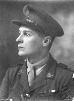 Portrait of Major Blair A. Wark, VC, DSO, 32nd Battalion 1st AIF